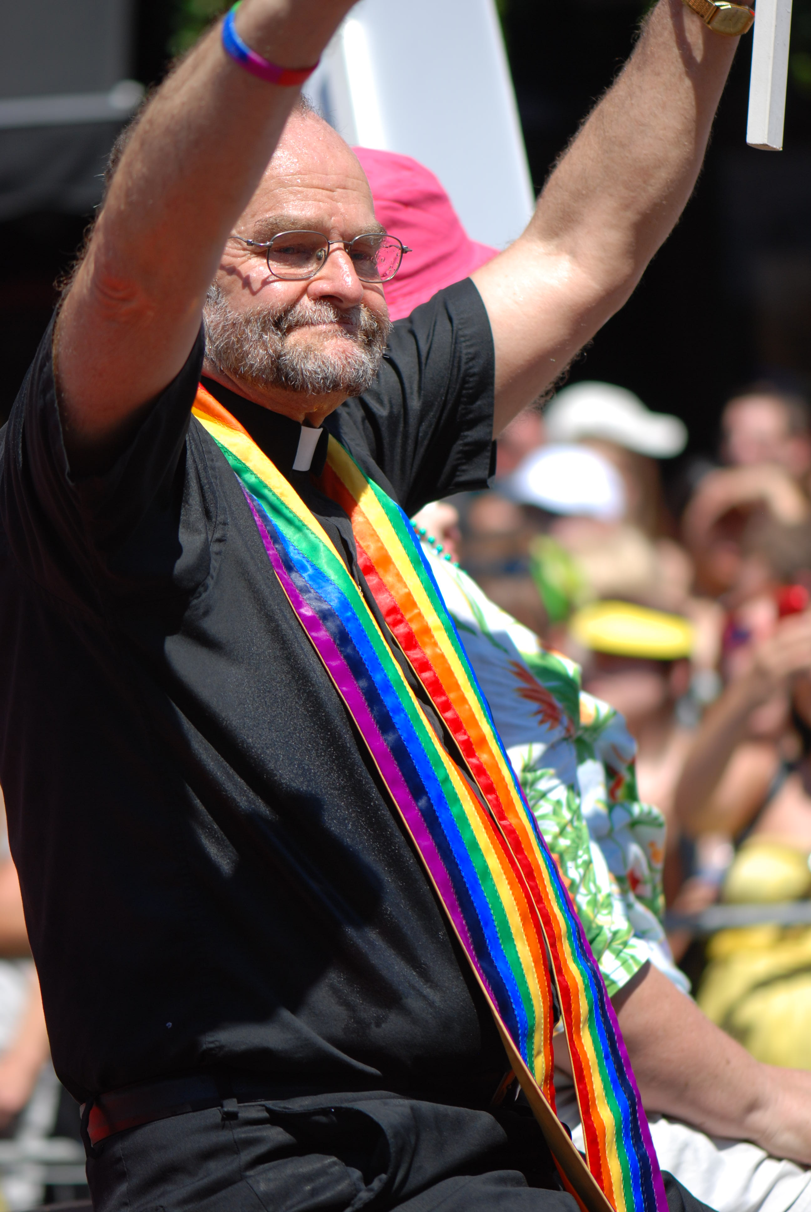 Reverend Brent Hawkes